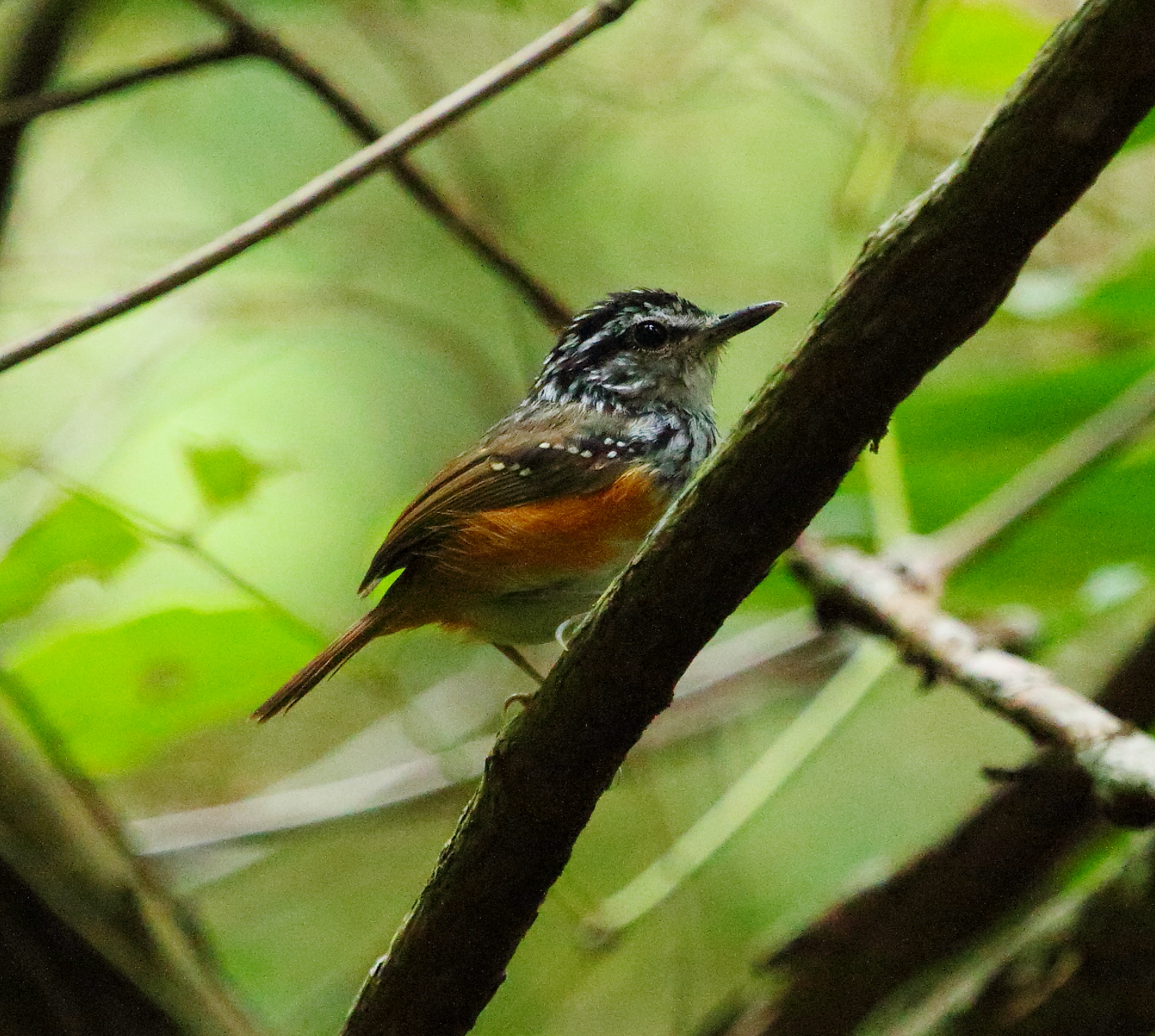 Guianan warbling antbird at Iwokrama Forest - Guiana